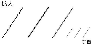 anti-aliasing